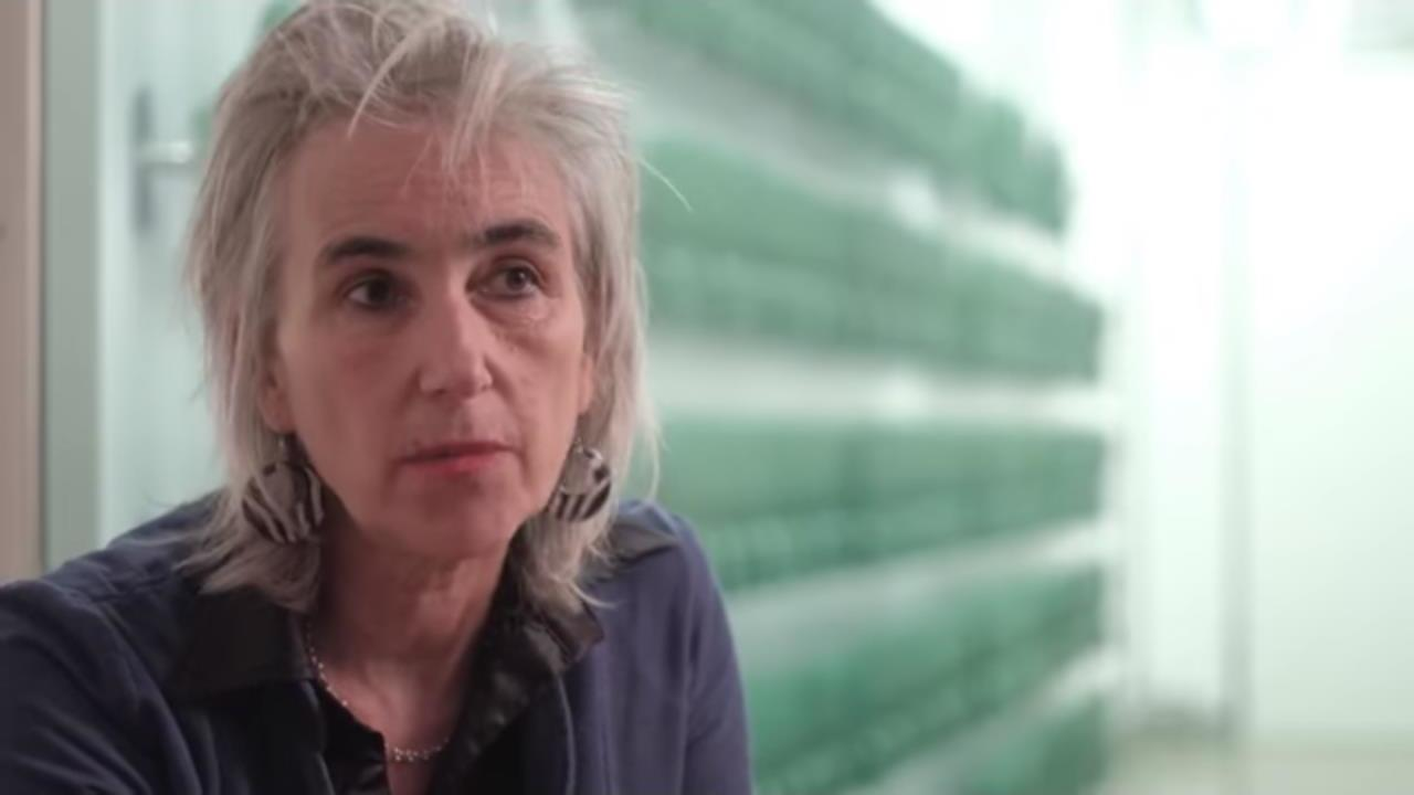 Dutch virologist Marion Koopmans. Erasmus MC opens a new laboratory for the safe conduct of infectious diseases research.